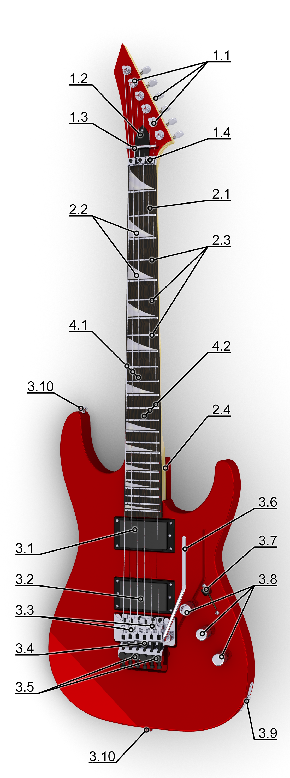 Electric Guitar based on ESP KH model.